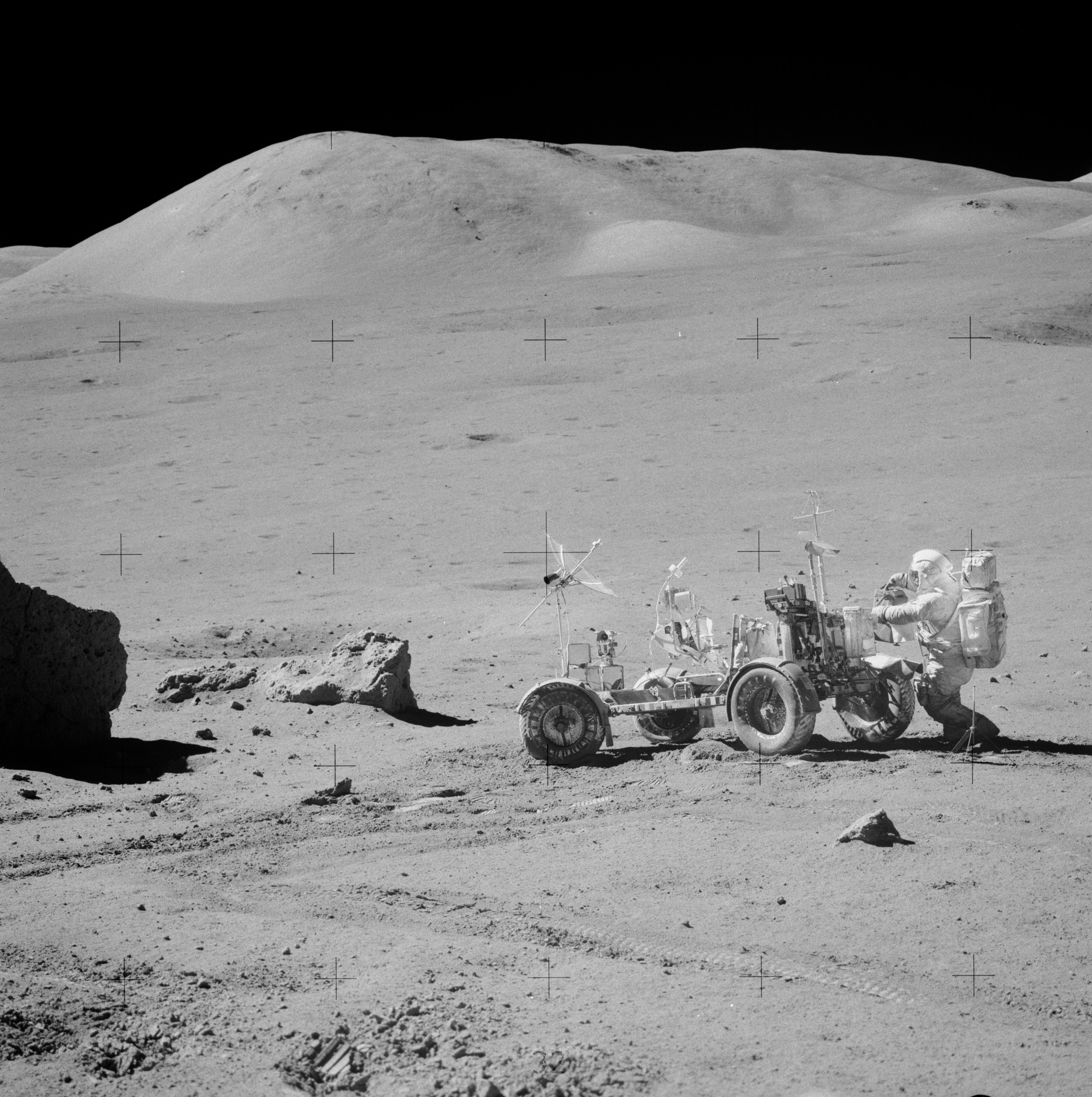 Apollo 17 picture from Schmitt near Station 6 showing Gene Cernan removing the TGE from the back of the Rover. A portion of Henry Crater can be seen at the right-hand edge of the image, Shakespeare Crater is above center, and Cochise is immediately to the right of Shakespeare. All three craters are about 500-m diameter.